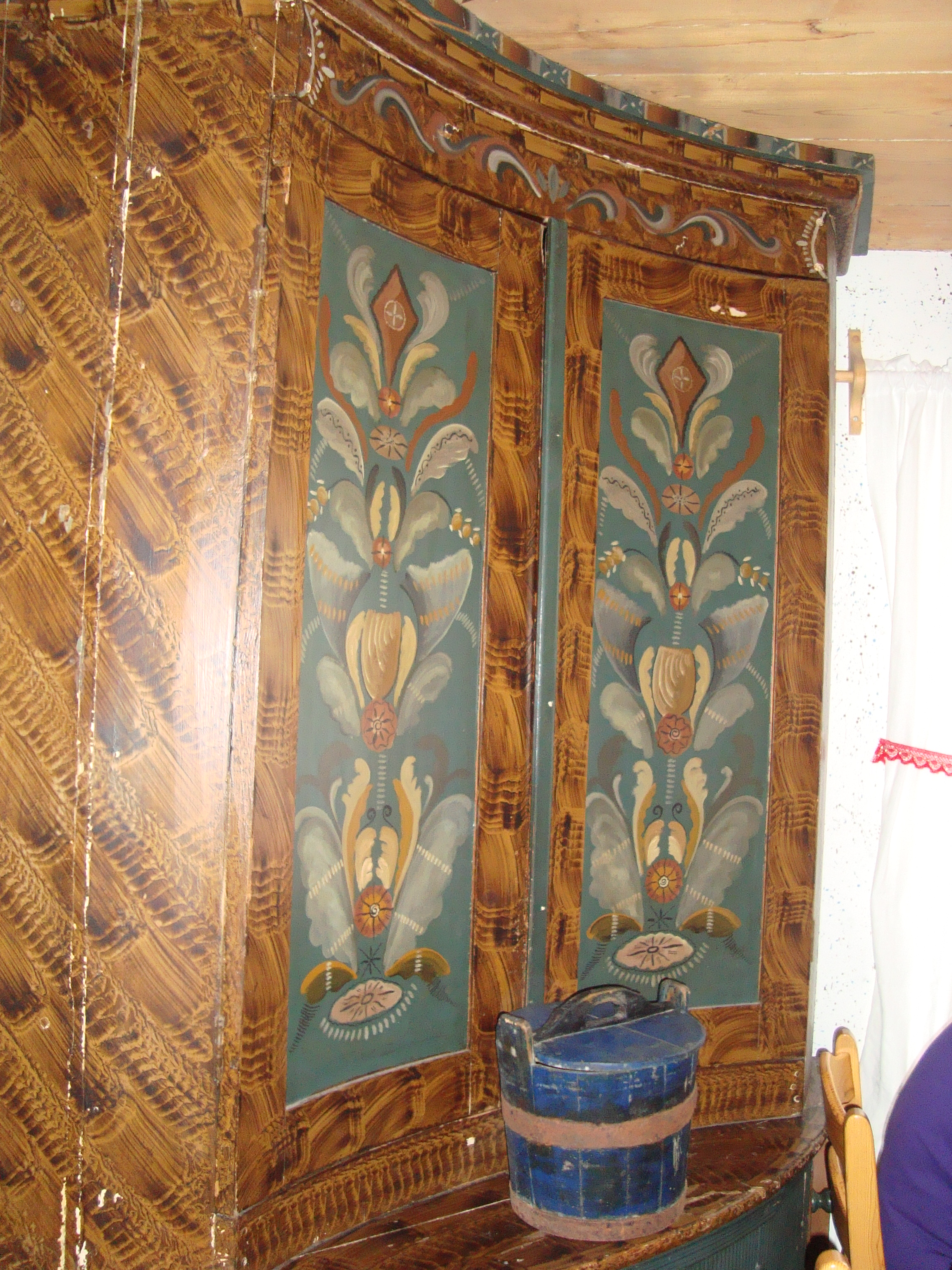 Tolvmansgården, birthplace for Nobel prize awarded author Erik Axel Karlfeldt